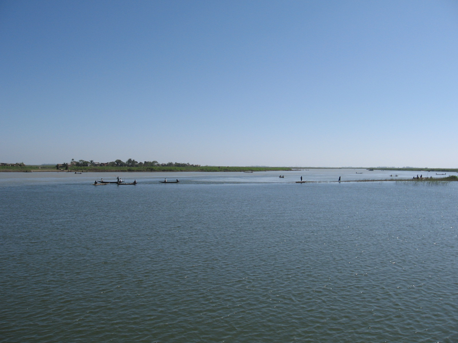 Villages appear as islands in a haor